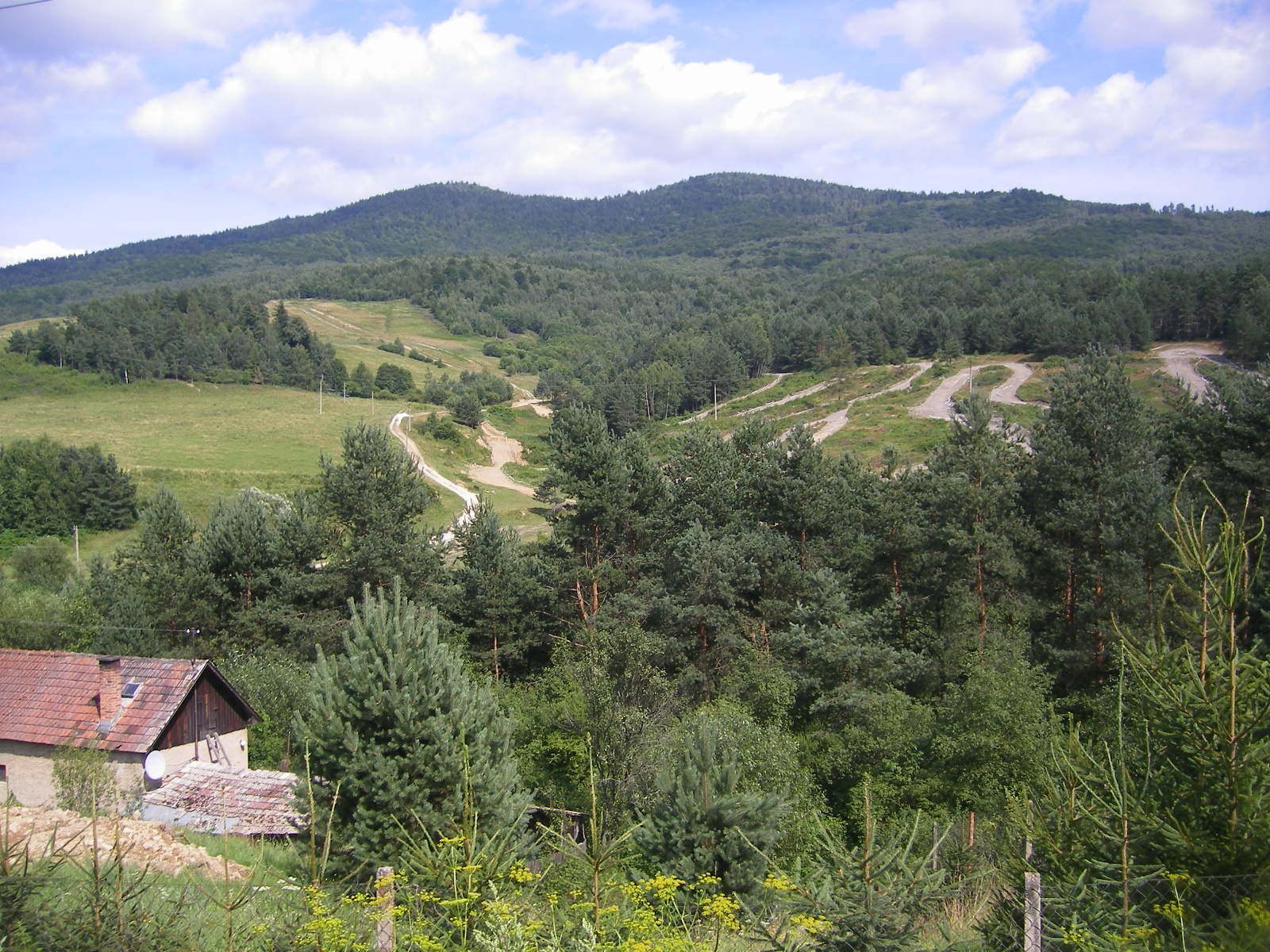 Mníšek nad Hnilcom - landscape